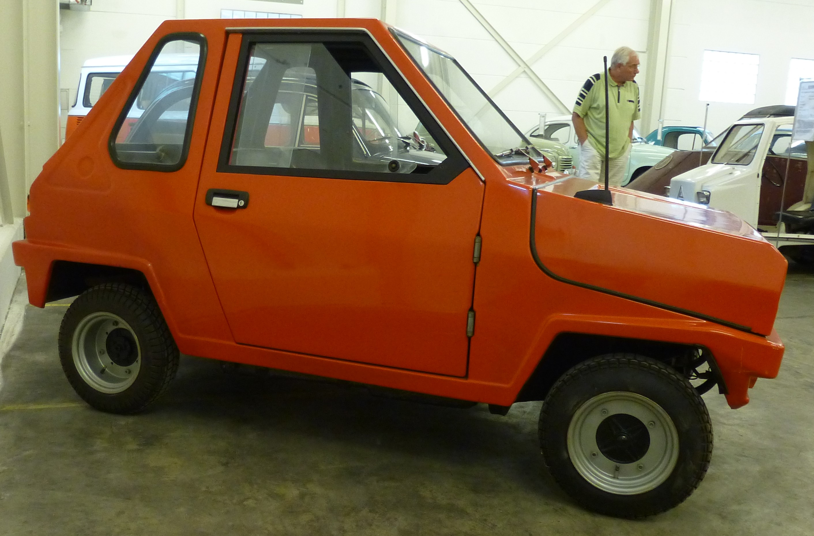 Fiam Johnny Panther